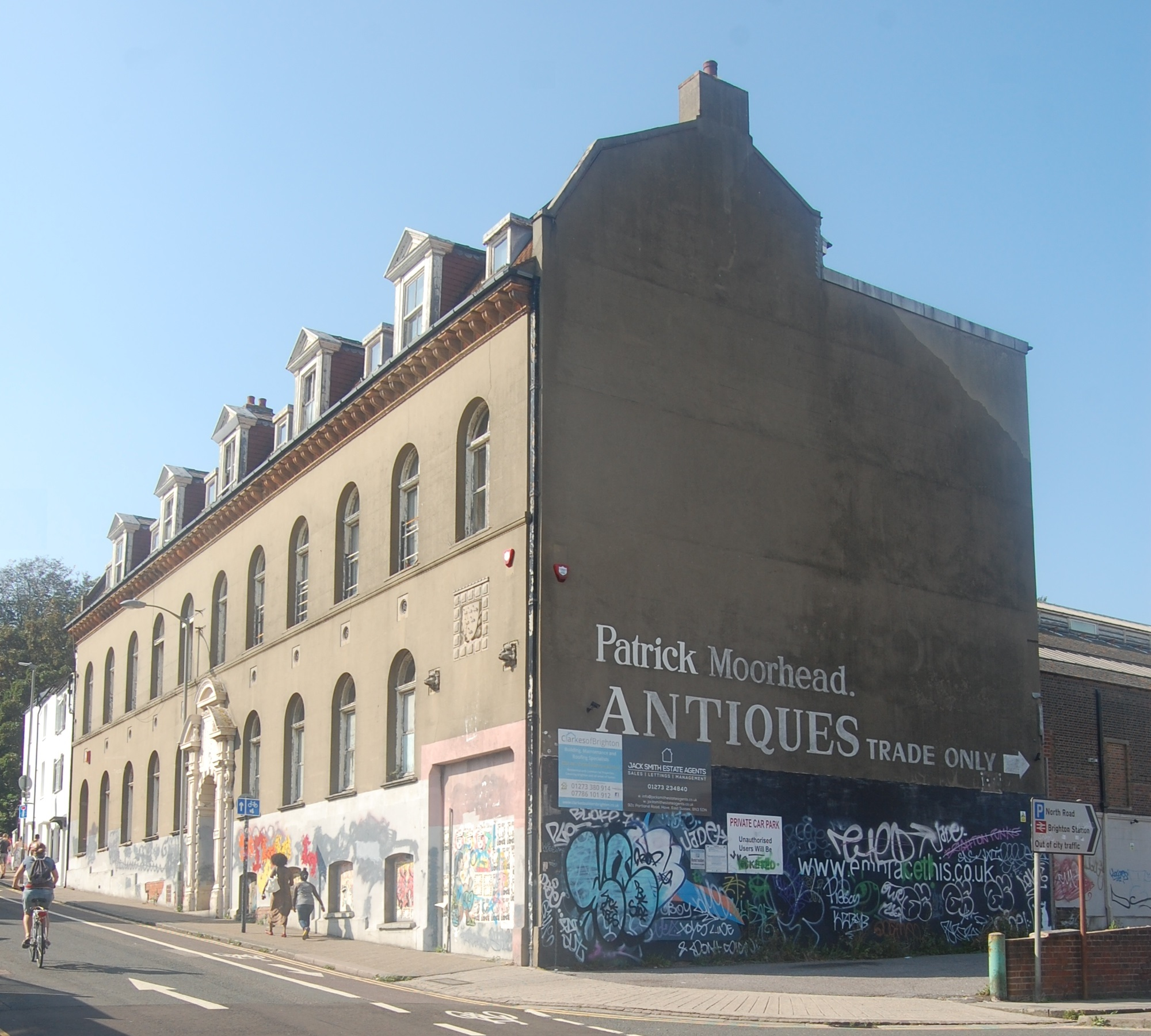 Patrick Moorhead Antiques Showroom, 76 Church Street, North Laine, Brighton, City of Brighton and Hove, England. Built in 1890 as the Church Street Drill Hall.